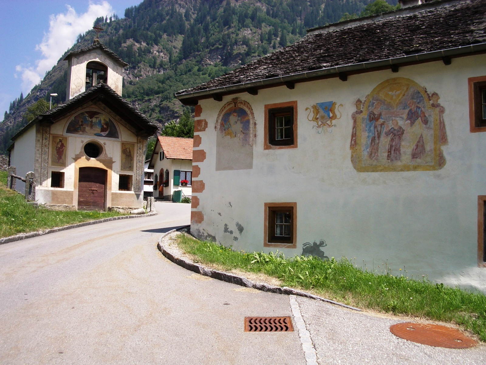 Bodio GR, Switzerland self-made, July 2006